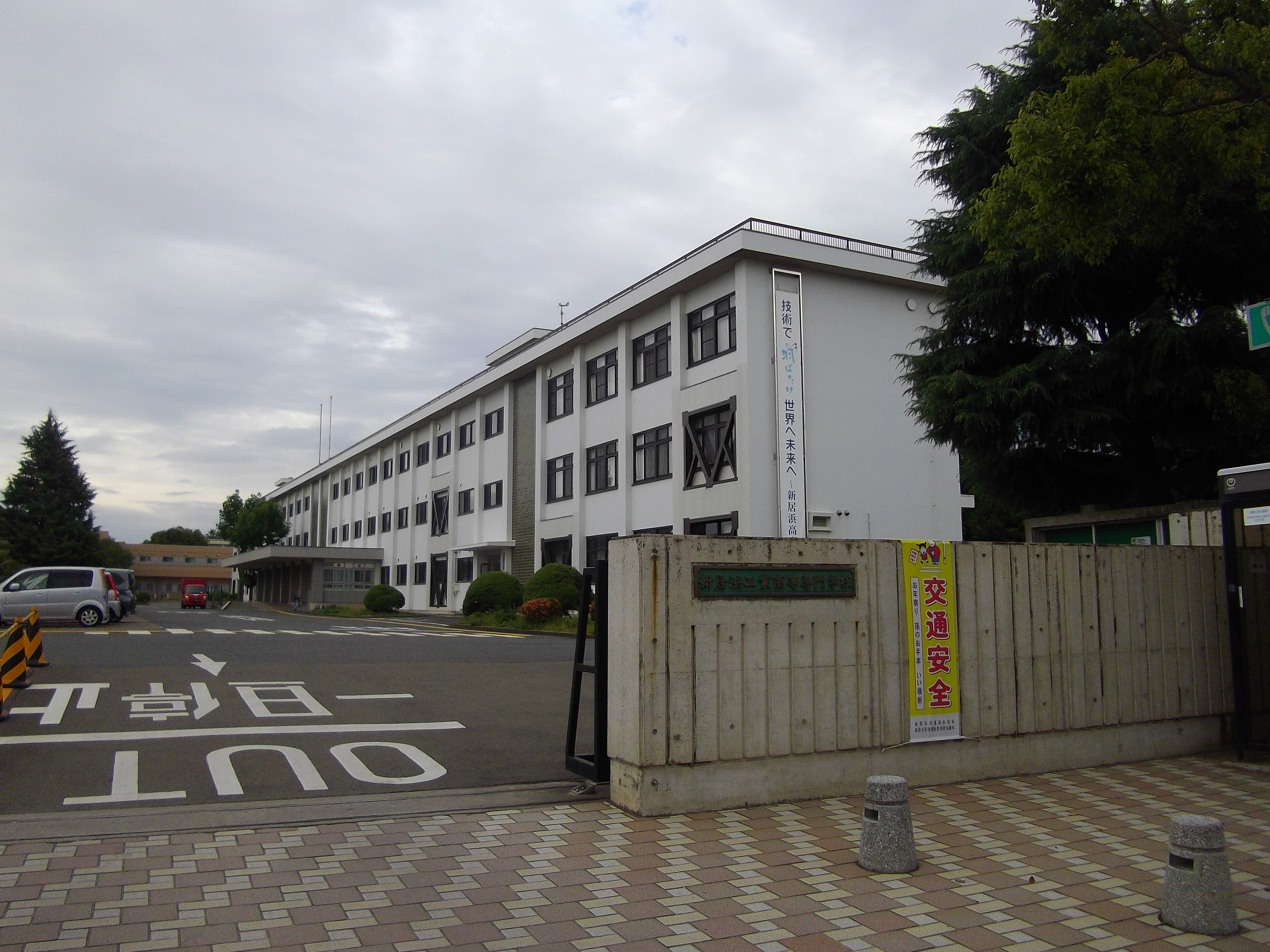 Niihama National College of Technology in Niihama city, Ehime prefecture, Japan.